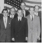 Walter Bedell Smith (center) with top Agency leaders, including Smith's new Deputy Director, William Harding Jackson (front row, to Smith's right) and outgoing DCI Hillenkoetter (to Smith’s left, in light suit), at swearing in ceremony of 7 October 1950.